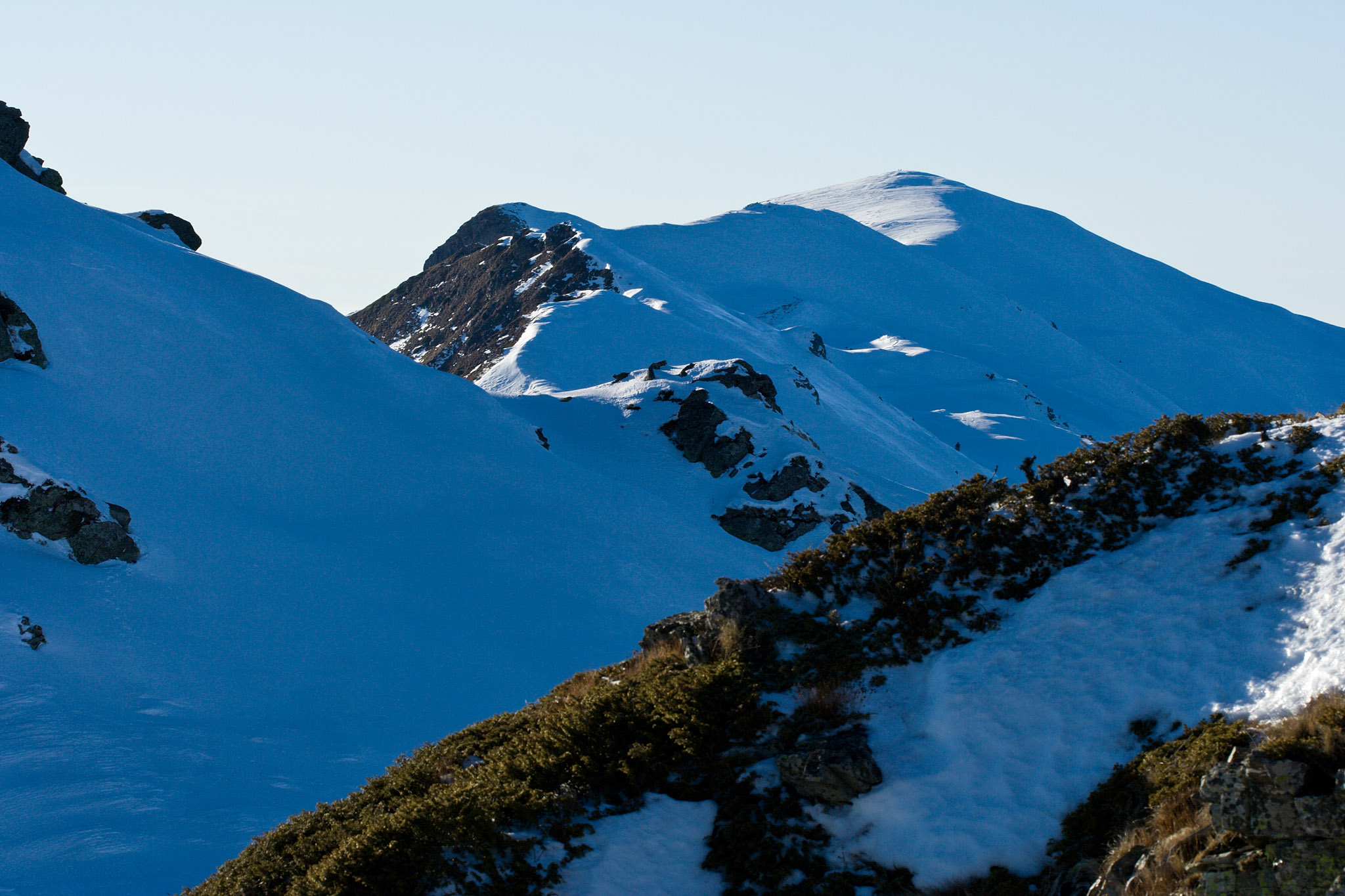 Kalabak (Radomir) - the highest summit in Belasitsa mountain, Bulgaria. Shrubs in foreground are Juniperus communis subsp. alpina